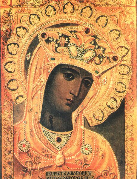 Greek Andronik's icon of Virgin